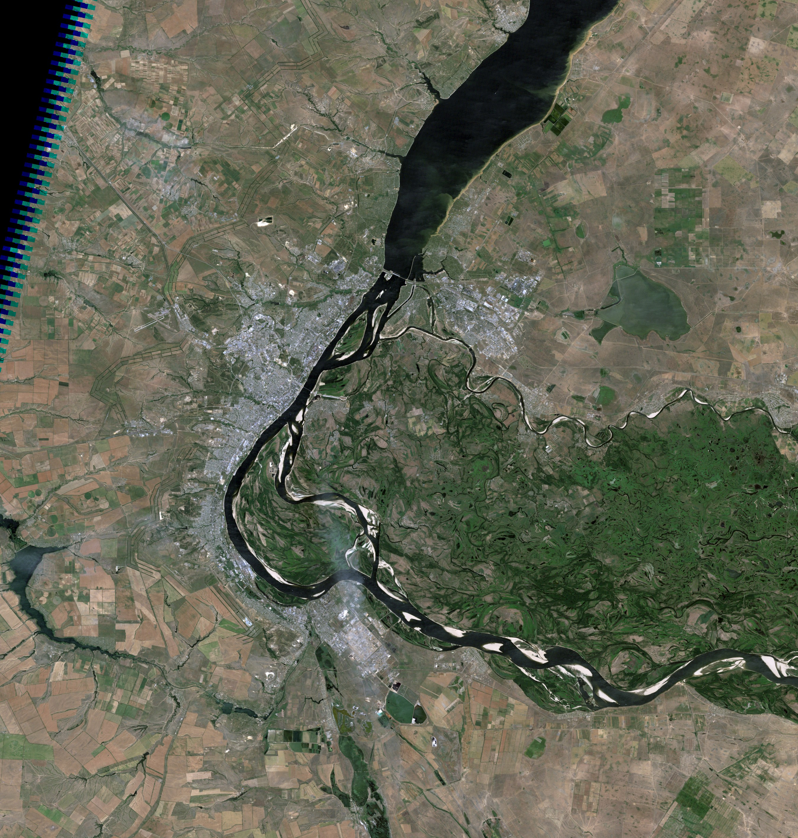 Volgograd, Russia, city and vicinities, near natural colors, LandSat-5, 2010-06-21, resolution 30 m, image ID LT51710262010172MOR00